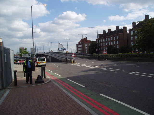 Bow Flyover. Looking east along the A11. A fine example of the effect of road building on the environment.